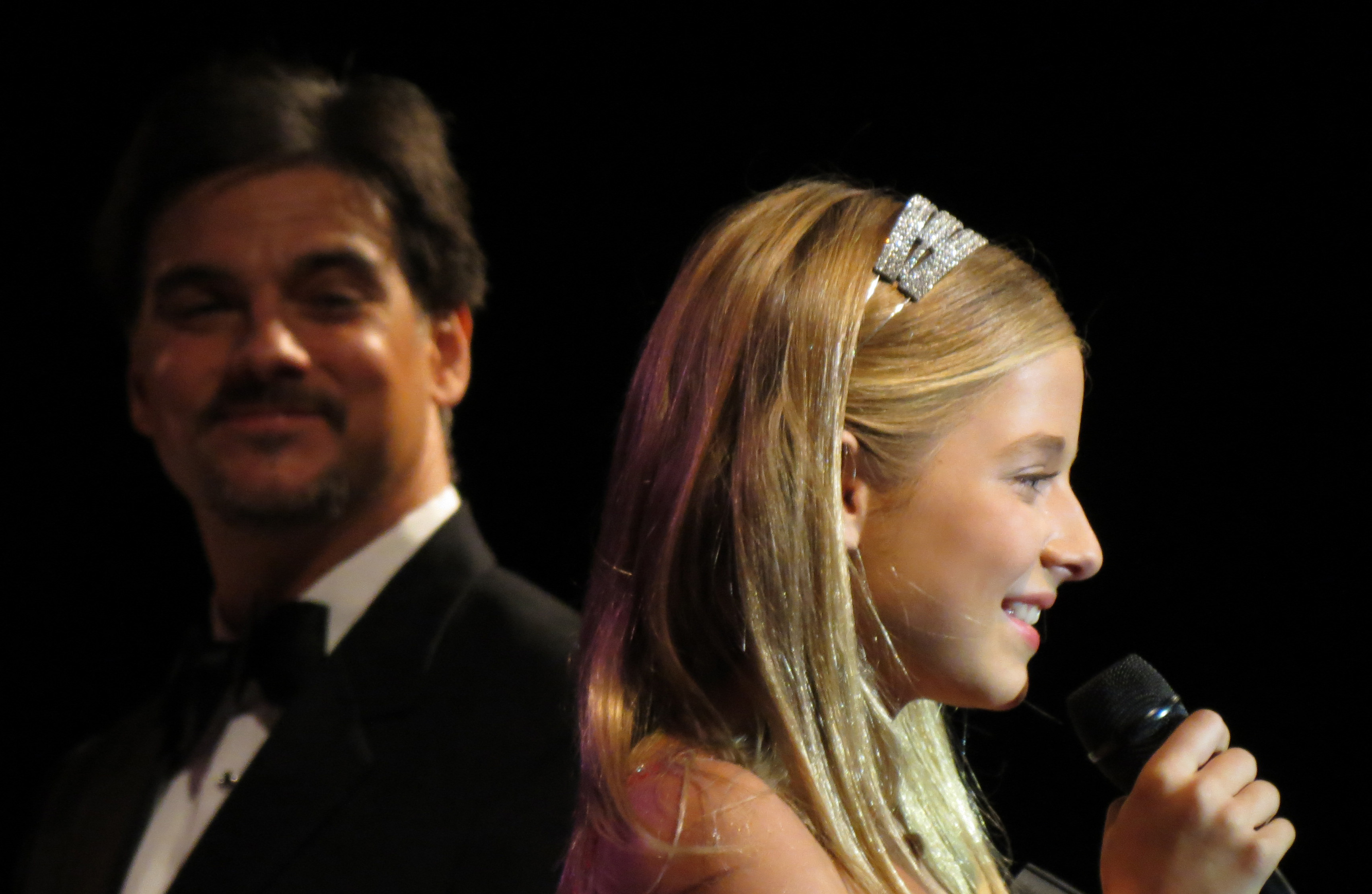 Photo of John Mario Di Costanzo and Jackie Evancho taken on August 31, 2012 at her concert with Tony Bennett at the Ironstone Amphitheatre near Murphys, California.